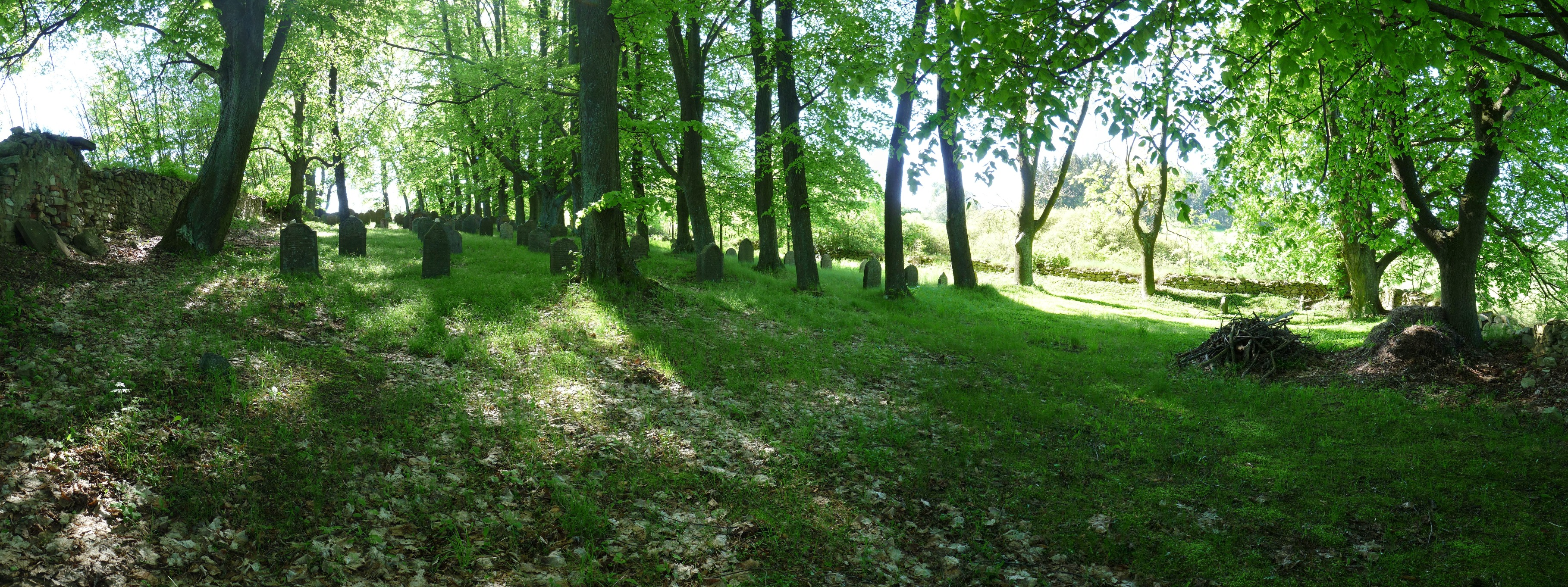 View of the Jewish cemetery by the town of Jistebnice, Tábor District, South Bohemian Region, Czech Republic.